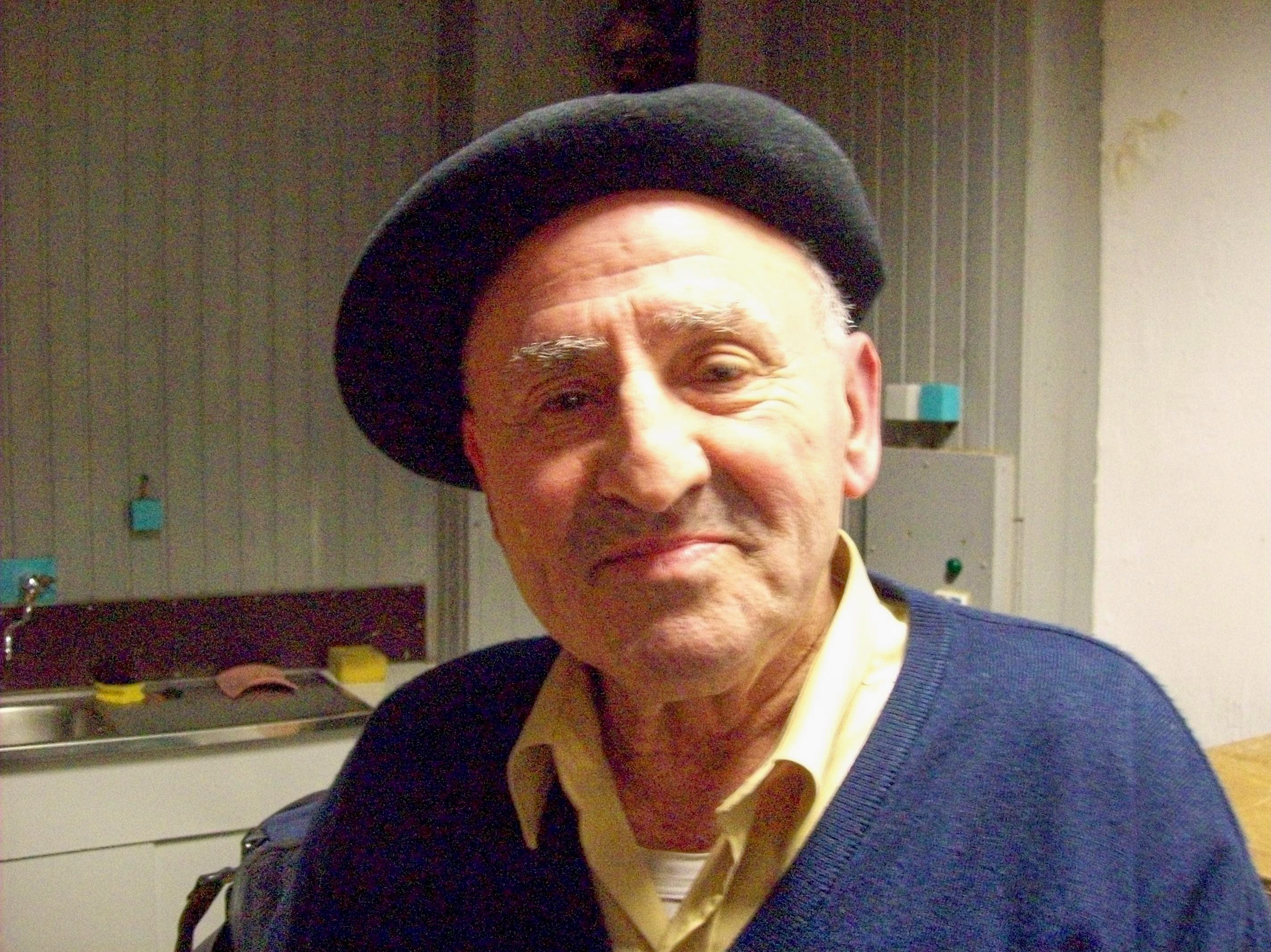 Lucio Urtubia in Berlin 2010